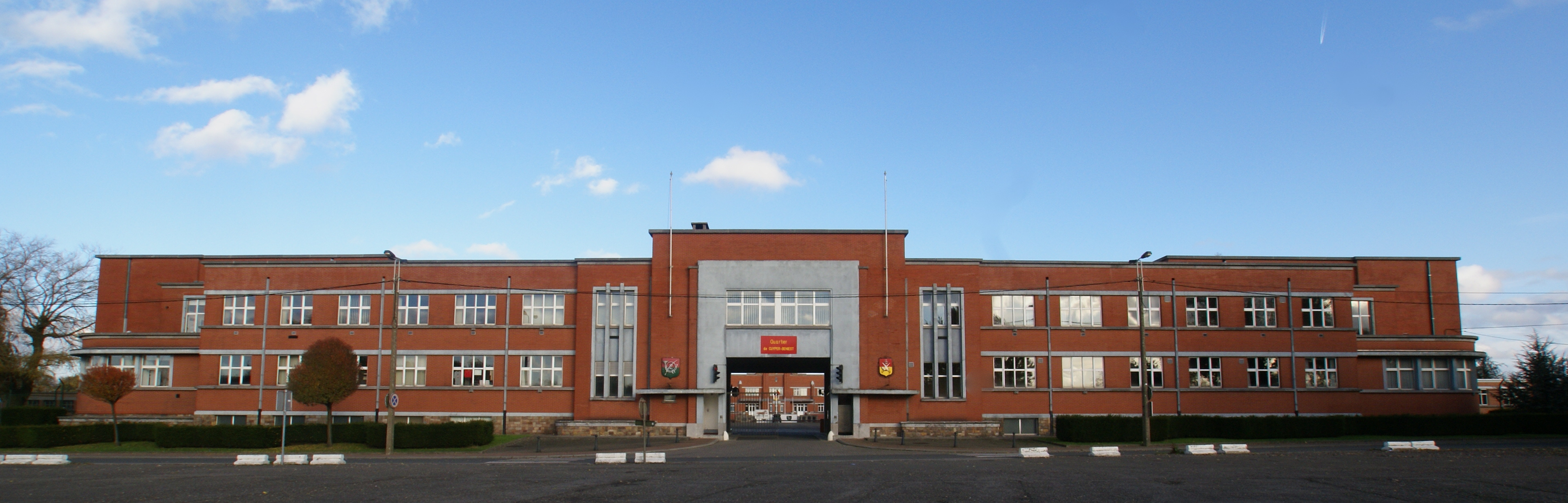 Saive (Belgium): Caserne